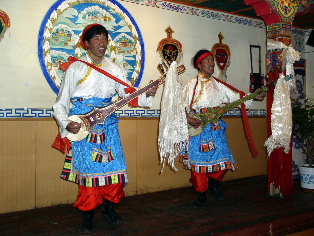 Tibetan dancing, Lhasa, Tibet